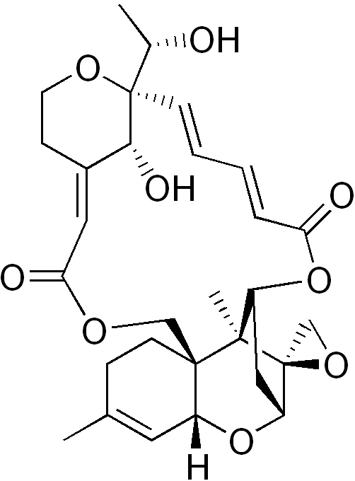 chemical structure of satratoxin-H